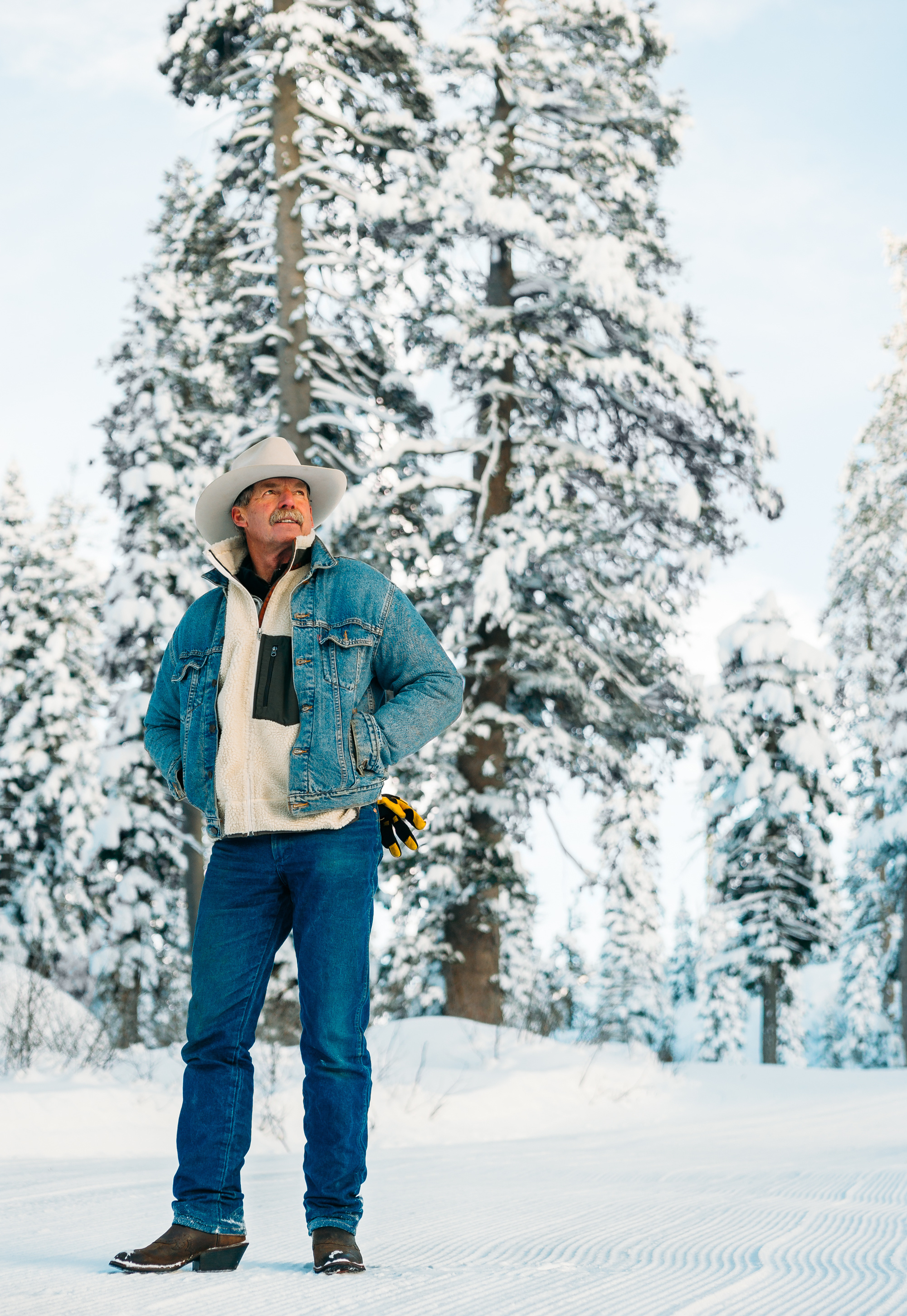 Owner of White Wolf Tahoe. Troy Caldwell 2016